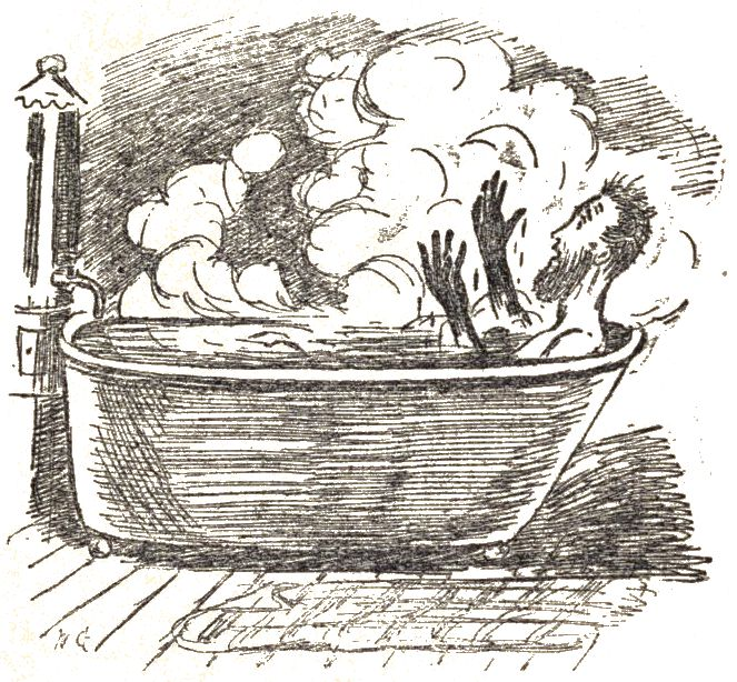 jpg of image on print page 47 of File:Diary of a Nobody.djvu